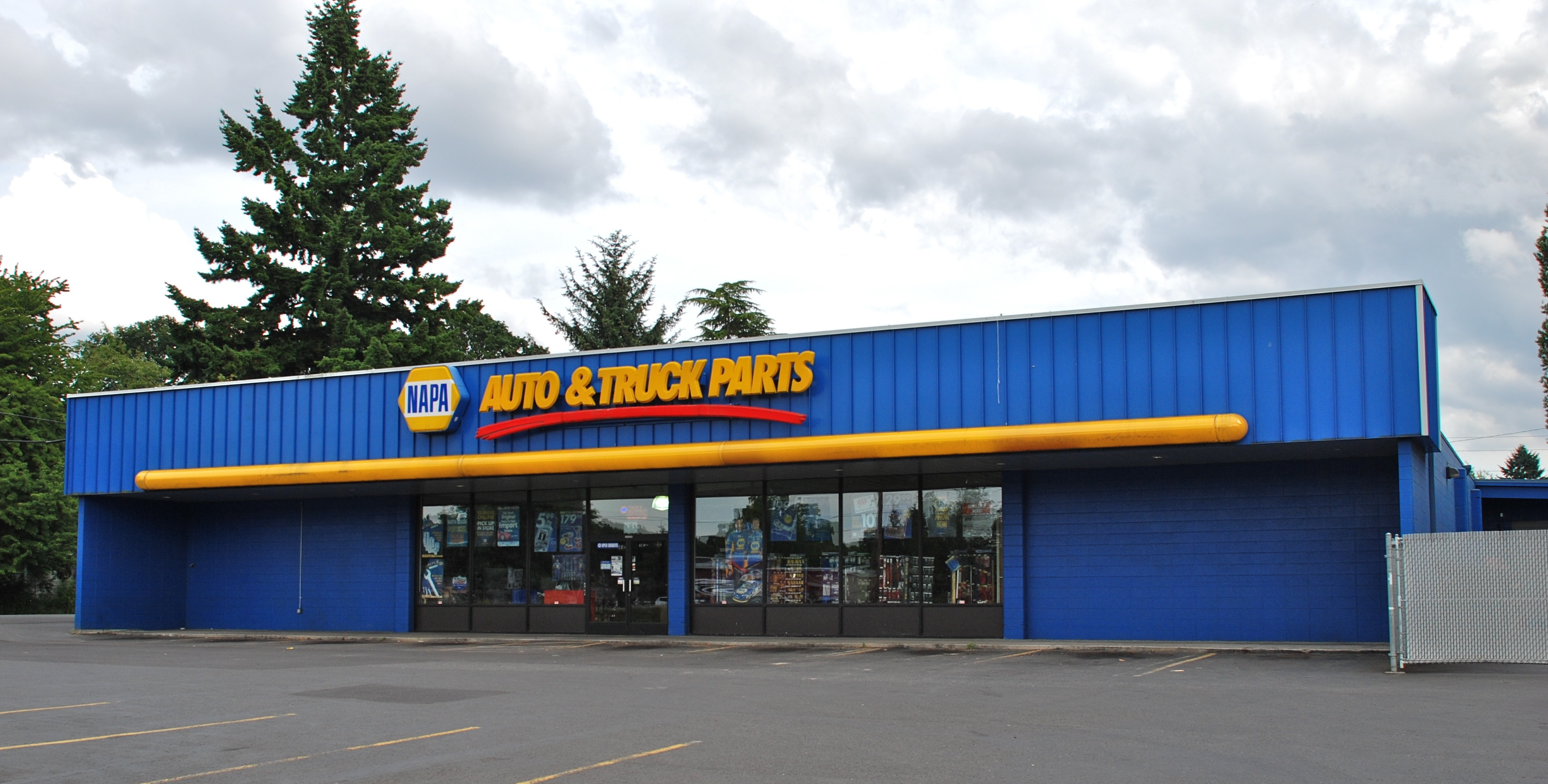 NAPA Auto & Truck Parts store in Aloha, Oregon - an unincorporated area west of Beaverton and within the Portland metropolitan area.